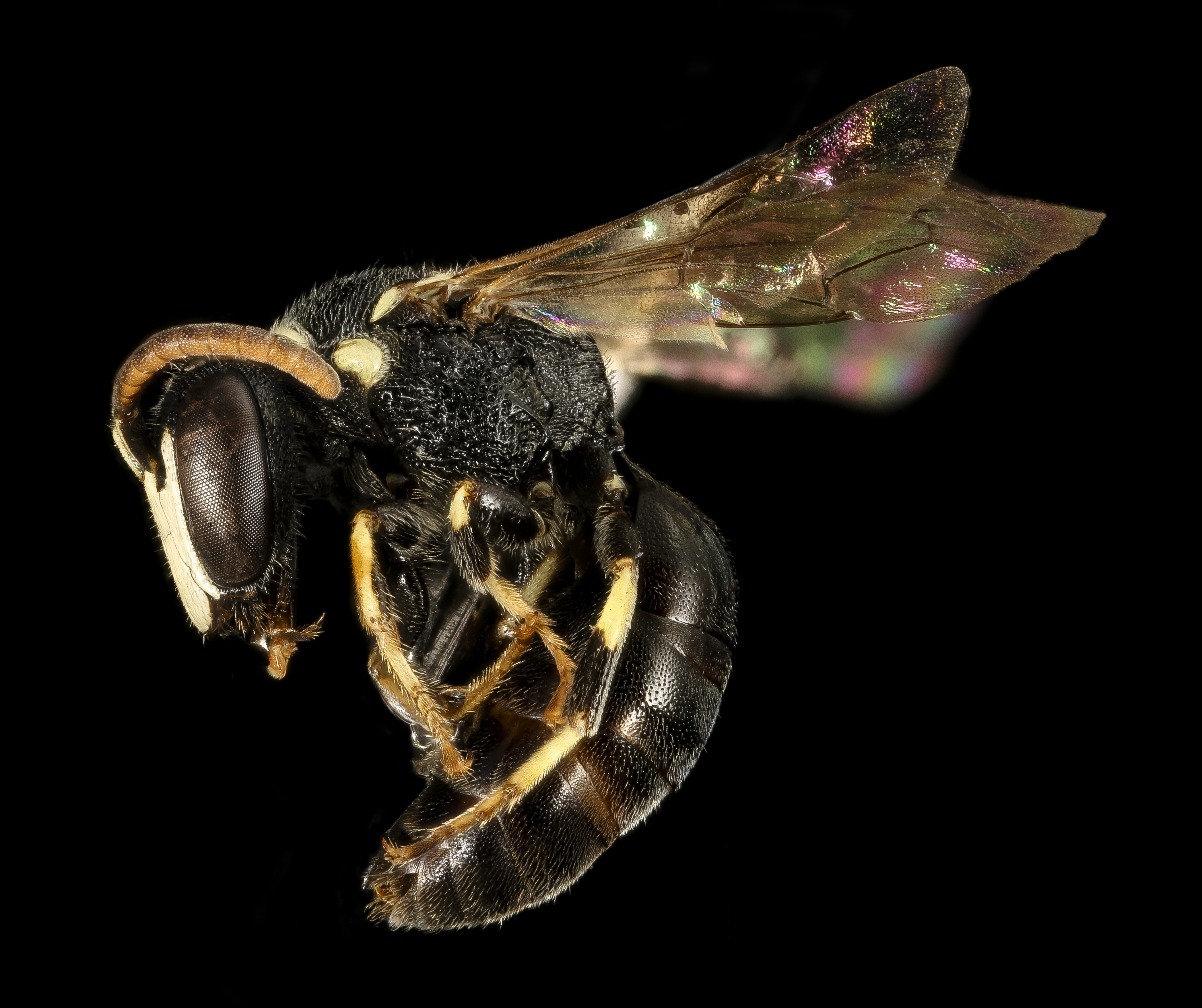 Masked Bee from Dorchester County. An alien masked bee, Hylaeus leptocephalus to be exact. In Maryland (in this case, Cambridge, Maryland) it is almost completely restricted to the urban weedy lot and industrial tract. Railroad lines...the best. Photography by Amanda Robinson. 02:43, 29 February 2016 (UTC)02:43, 29 February 2016 (UTC) 0 02:43, 29 February 2016 (UTC)02:43, 29 February 2016 (UTC) All photographs are public domain, feel free to download and use as you wish. Photography Information: Canon Mark II 5D, Zerene Stacker, Stackshot Sled, 200mm Pentax-m with Nikon 10X infinity microscope objective lens mounted on front , Twin Macro Flash in Styrofoam Cooler, F5.6, ISO 100, Shutter Speed 200 Love for Other Things It’s easy to love a deer But try to care about bugs and scrawny trees Love the puddle of lukewarm water From last week’s rain. Leave the mountains alone for now. Also the clear lakes surrounded by pines. People are lined up to admire them. Get close to the things that slide away in the dark. Be grateful even for the boredom That sometimes seems to involve the whole world. Think of the frost That will crack our bones eventually. - Tom Hennen You can also follow us on Instagram account USGSBIML Want some Useful Links to the Techniques We Use? Well now here you go Citizen: Basic USGSBIML set up: USGSBIML Photoshopping Technique: Note that we now have added using the burn tool at 50% opacity set to shadows to clean up the halos that bleed into the black background from "hot" color sections of the picture. PDF of Basic USGSBIML Photography Set Up: ftp://ftpext.usgs.gov/pub/er/md/laurel/Droege/How%20to%20Take%20MacroPhotographs%20of%20Insects%20BIML%20Lab2.pdf Google Hangout Demonstration of Techniques: or Excellent Technical Form on Stacking: Contact information: Sam Droege 301 497 5840